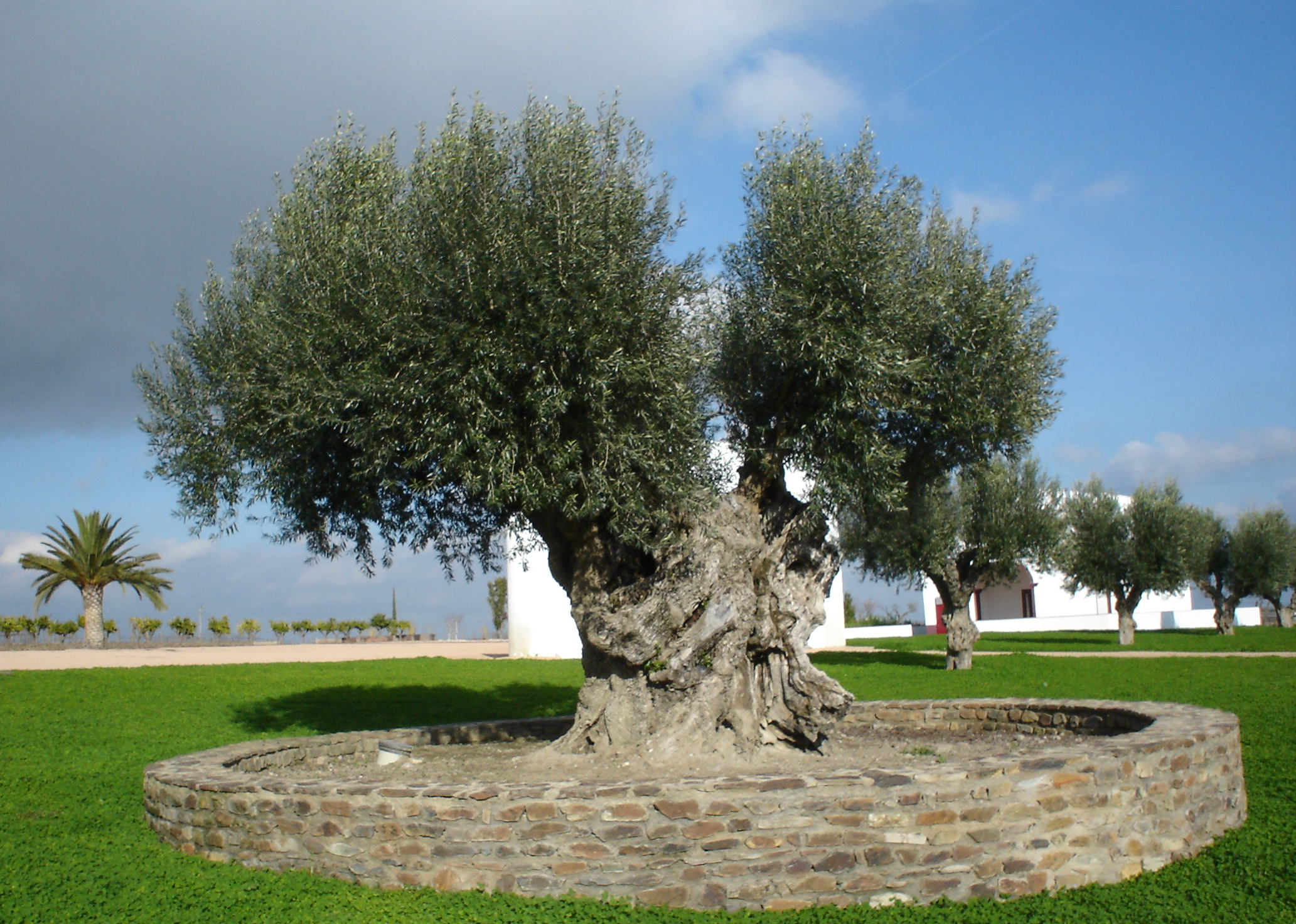 Several centuries old olive tree at the Esporão estate in Reguengos de Monsaraz (Alentejo, Portugal)